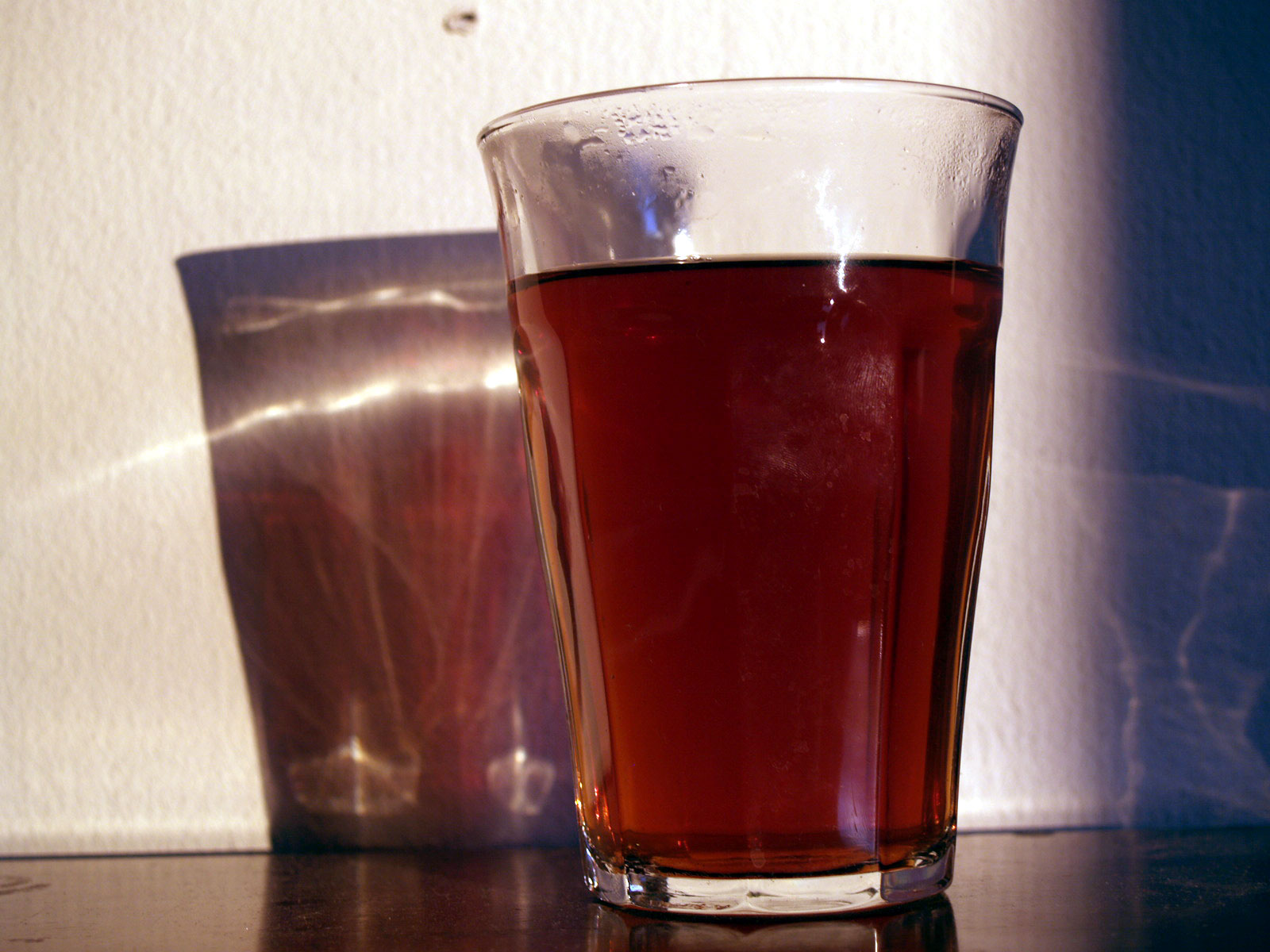 Rum toddy